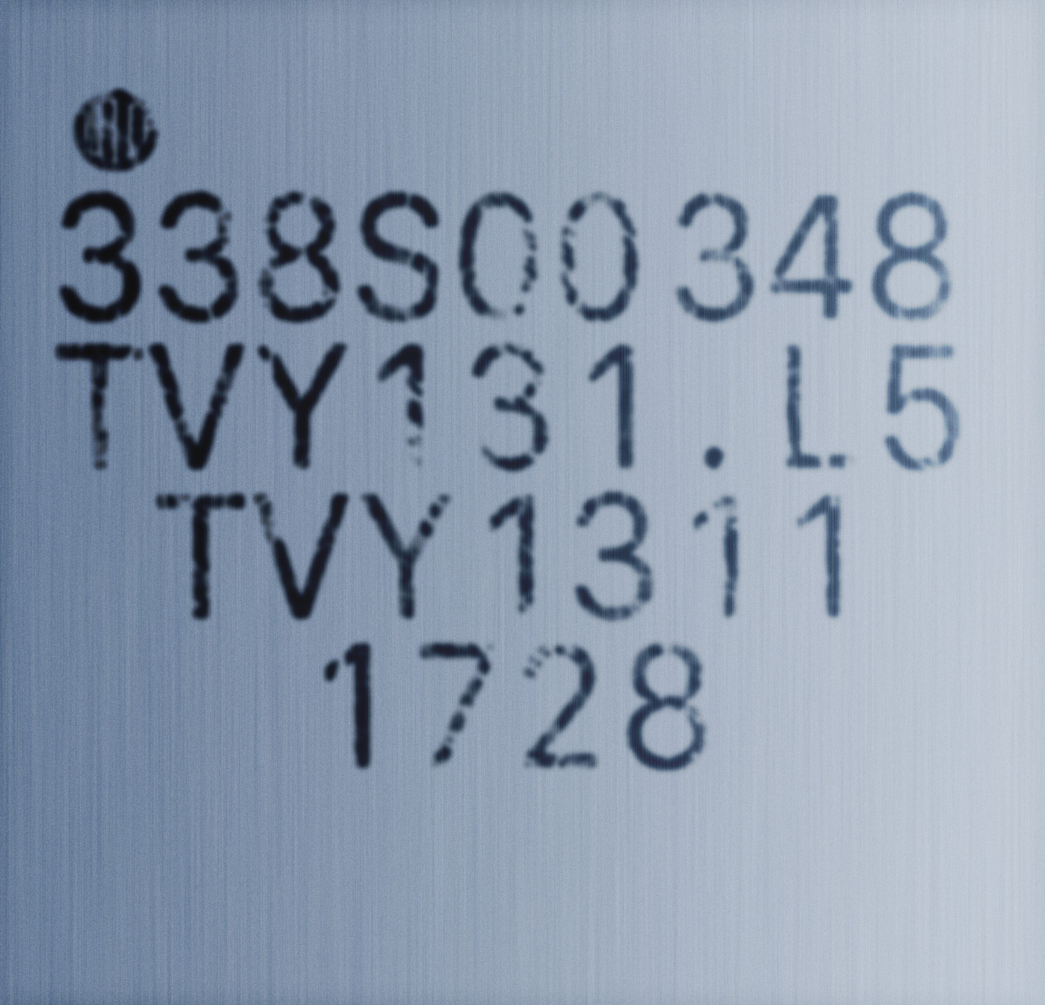 An illustration of Apple's W2 SoC controlling the Bluetooth and WiFi in the Apple Watch Series 3. Inspiration for this picture comes from TechInsights teardown of the Apple Watch Series 3.